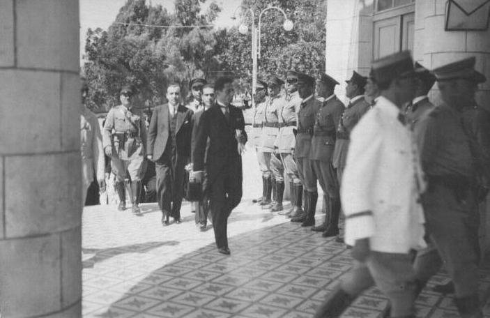 French-Turkish agreement, July 3, 1938